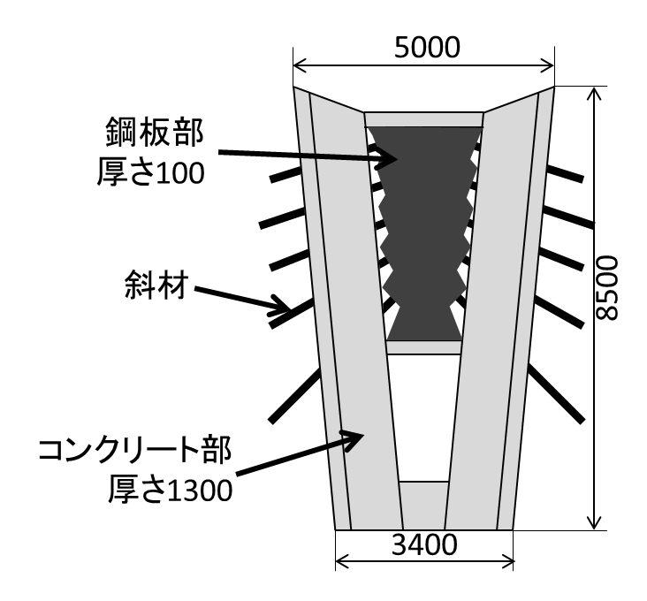 Dimension and structure of main tower for Shin-Meishin Mukogawa bridge